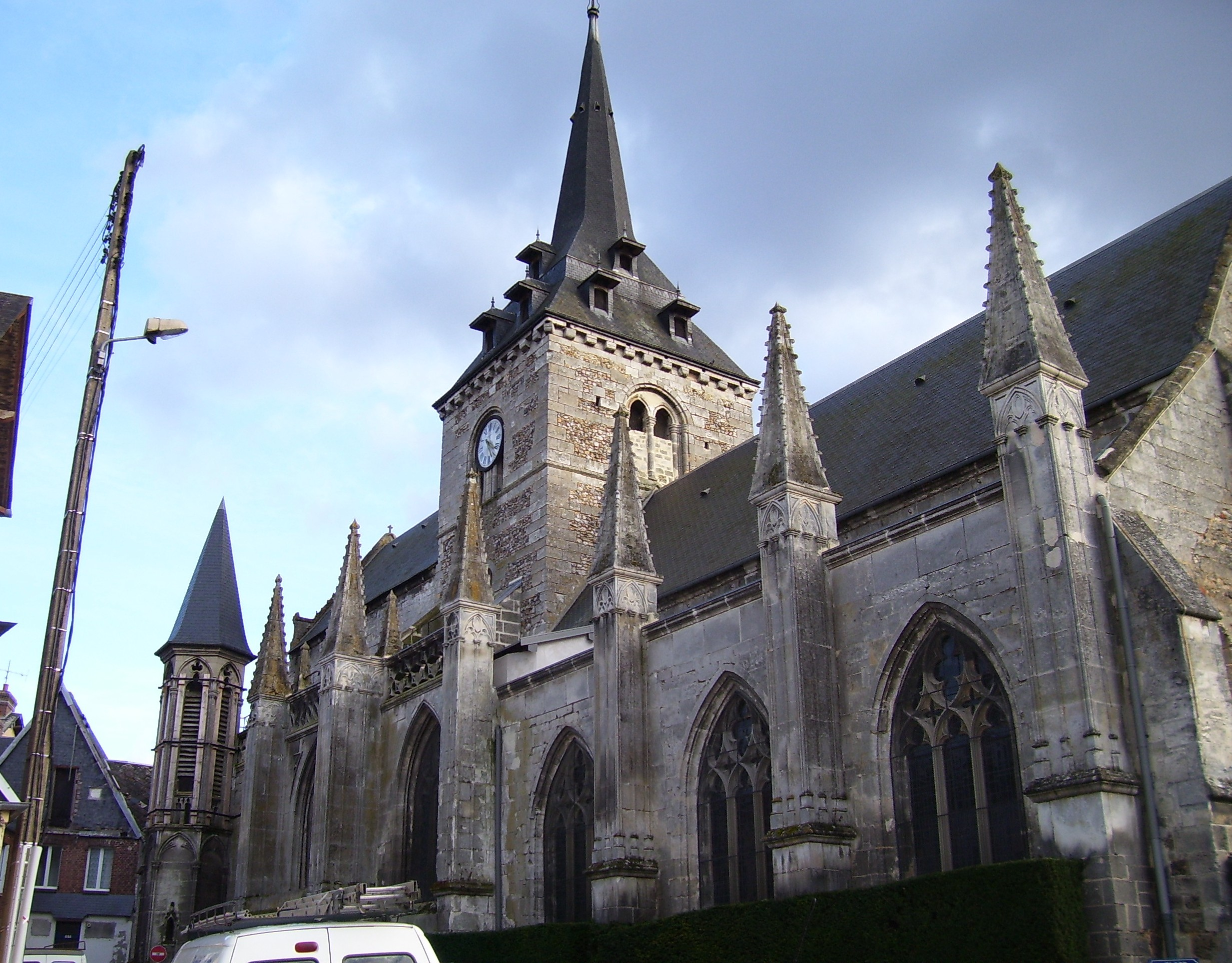 Romanesque church Saint-Martin in Brionne, departement Eure, Normandie, France.